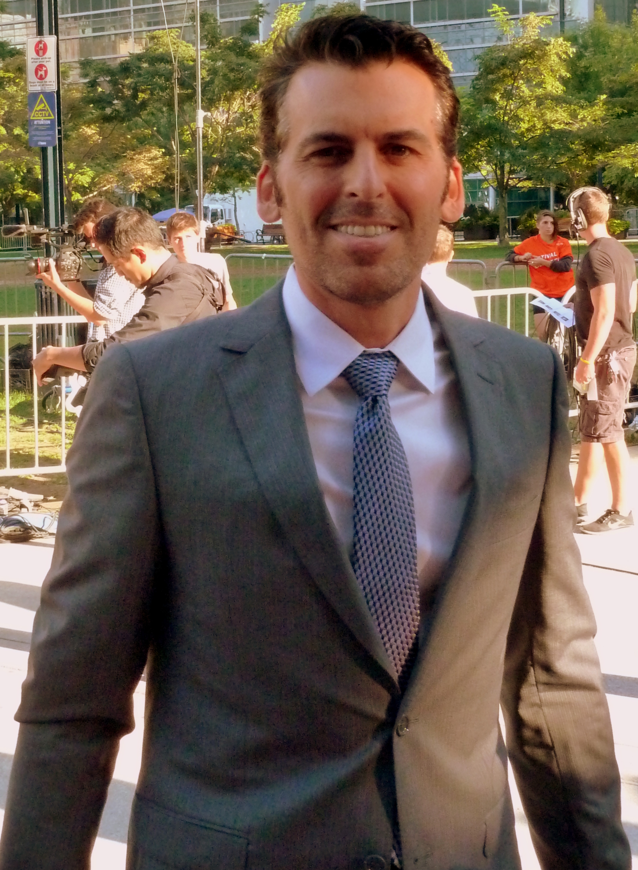 Oded Fehr at the premiere of Inescapable, in the Toronto Film Festival 2012.